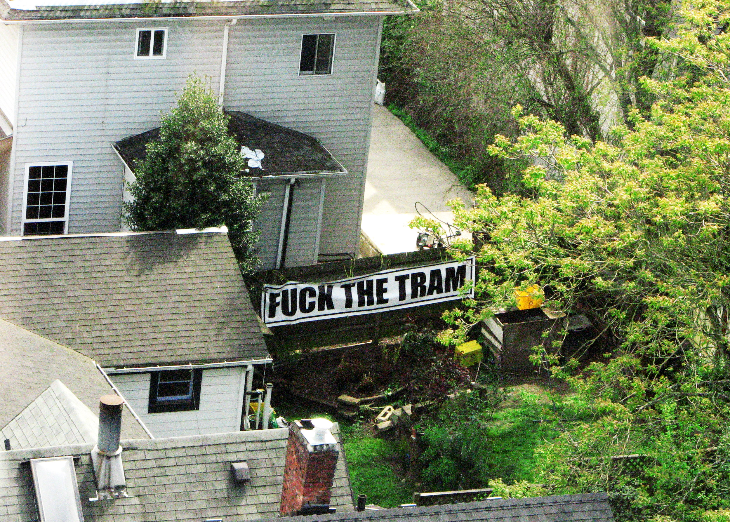 Image of a controversial and iconic protest banner referring to the Portland Aerial Tram.